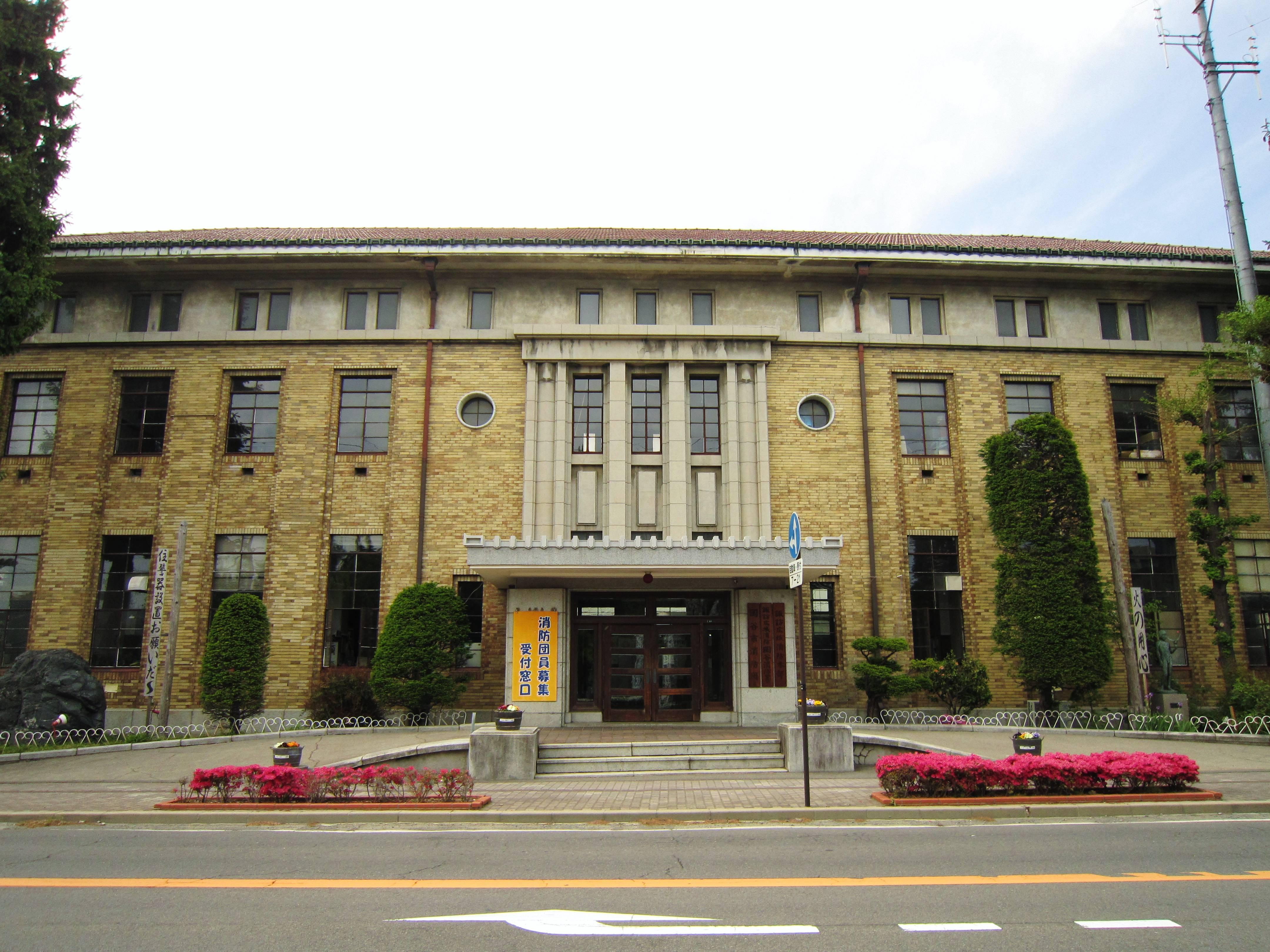 Former Okaya city office.